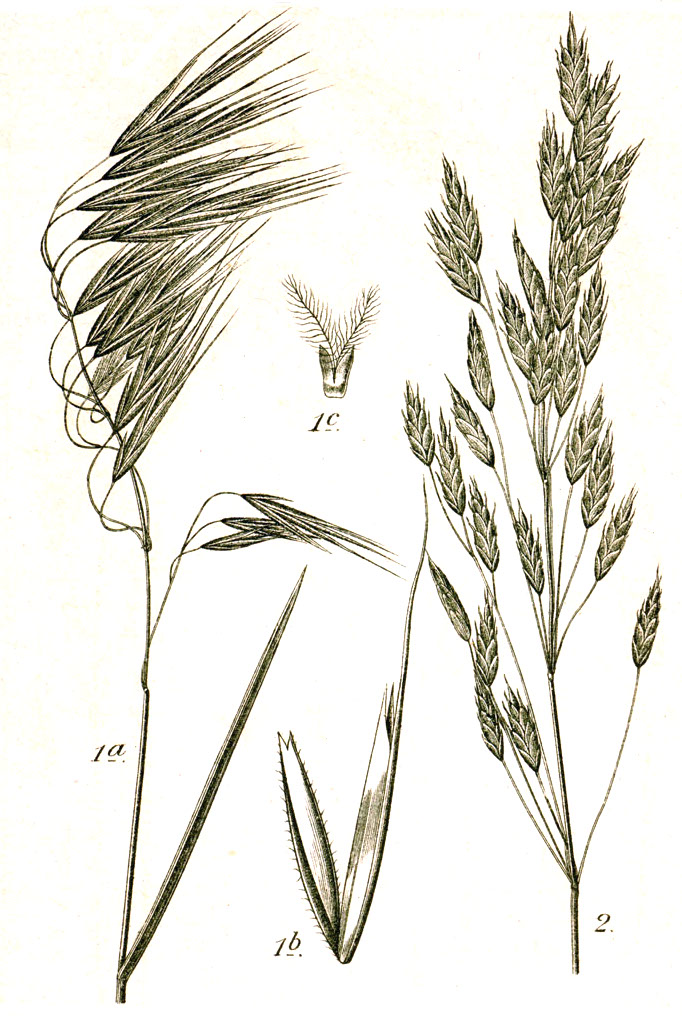 1. Bromus tectorum L. 2. Bromus secalinus L. s. str. Original Caption 1. Dach-Trespe, Bromus tectorum L. 2. Roggen-Trespe, B. secalinus L.